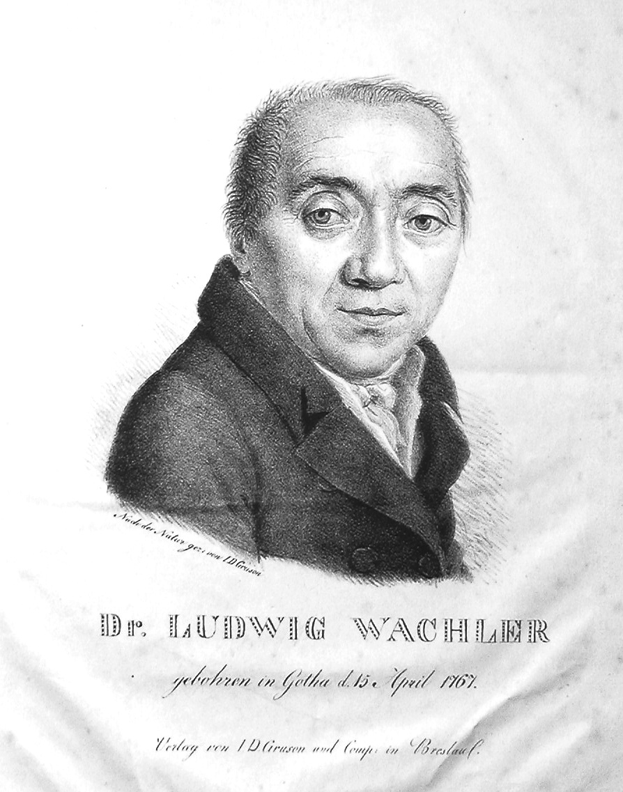 Ludwig Wachler, German teologician, literary historian